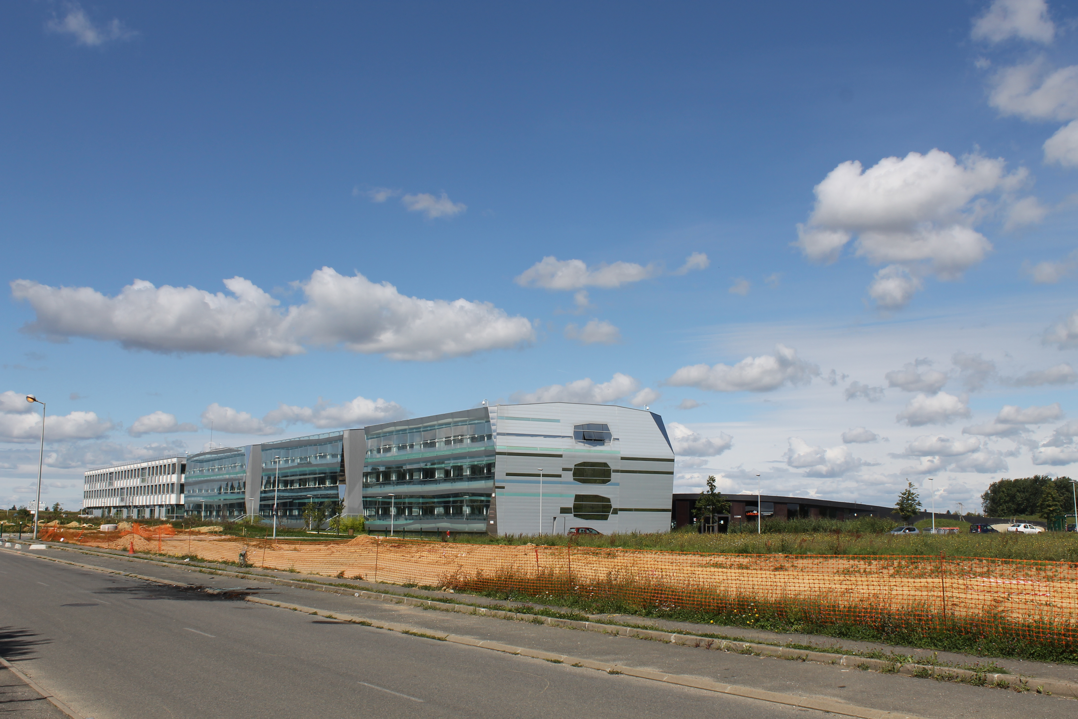 The Pôle commun de recherche en informatique, next to Digiteo's building (on the left), in August 2014 (Paris-Saclay scientific cluster).